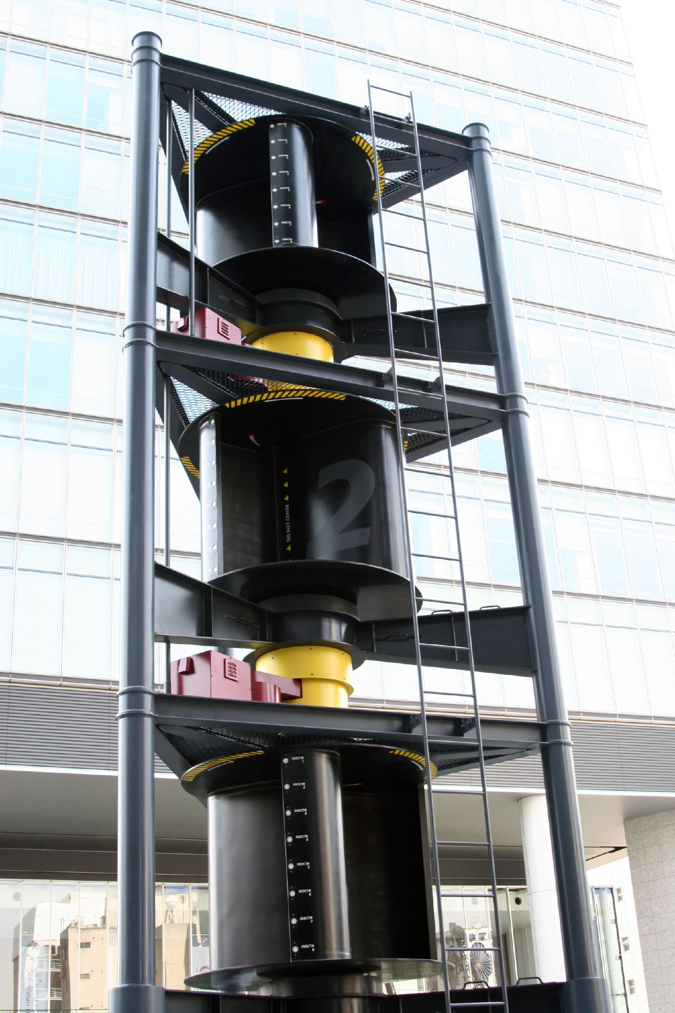 wind power generation